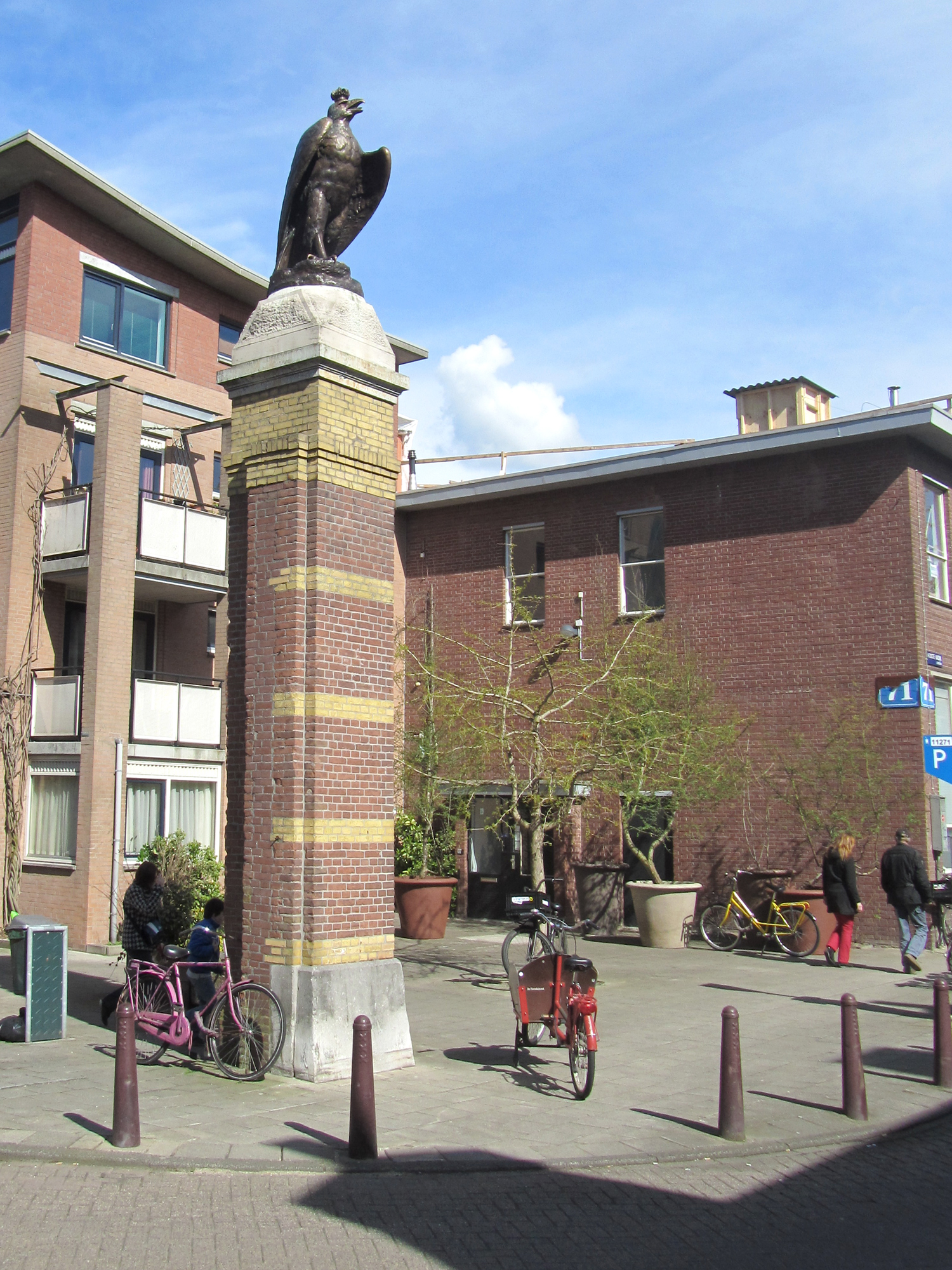 Replica of the emblem of the brewery De Gekroonde Valk ("The Crowned Falcon") on Hoogte Kadijk street in Amsterdam